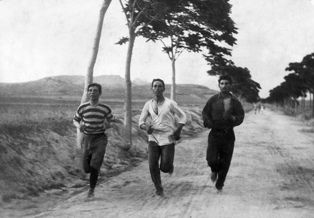 Three athletes in training for the marathon race of the 1896 Athens Olympic Games, on the road from Marathon, Greece, Charilaos Vasilakos in the middle. Sources: [1] image caption, [2] image caption: Ο Χαρίλαος Βασιλάκος (στο κέντρο) κατά την προπόνηση, [3] image caption page 32: Από προπόνηση για τον μαραθώνιο (στη μέση ο Βασιλάκος), [4] image caption page 69.